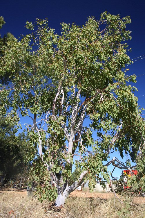 Eucalyptus bigalerita, planted at halfway roadhouse north of Perth toward Eneabba